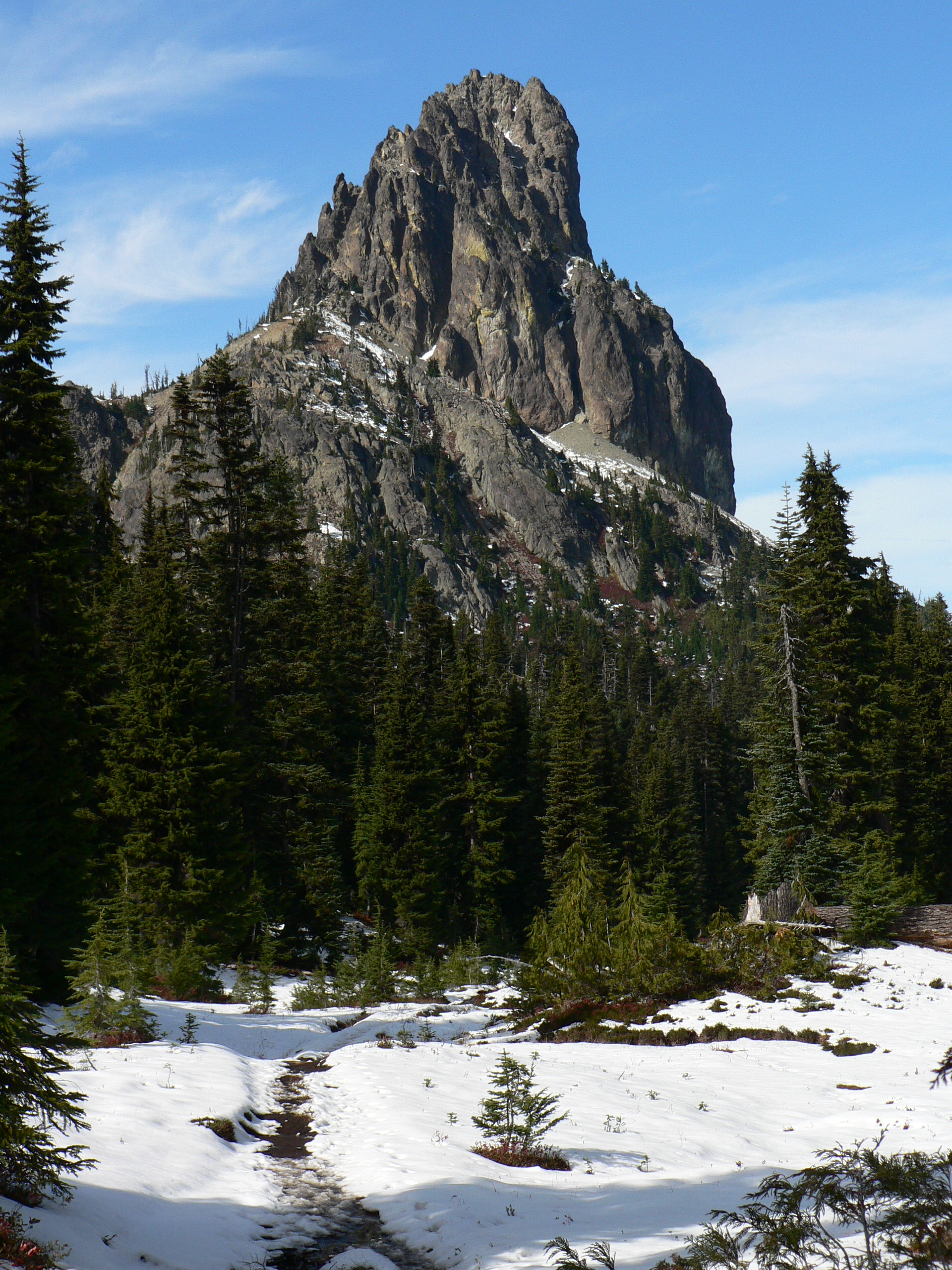 Cathedral Rock (6724 feet)